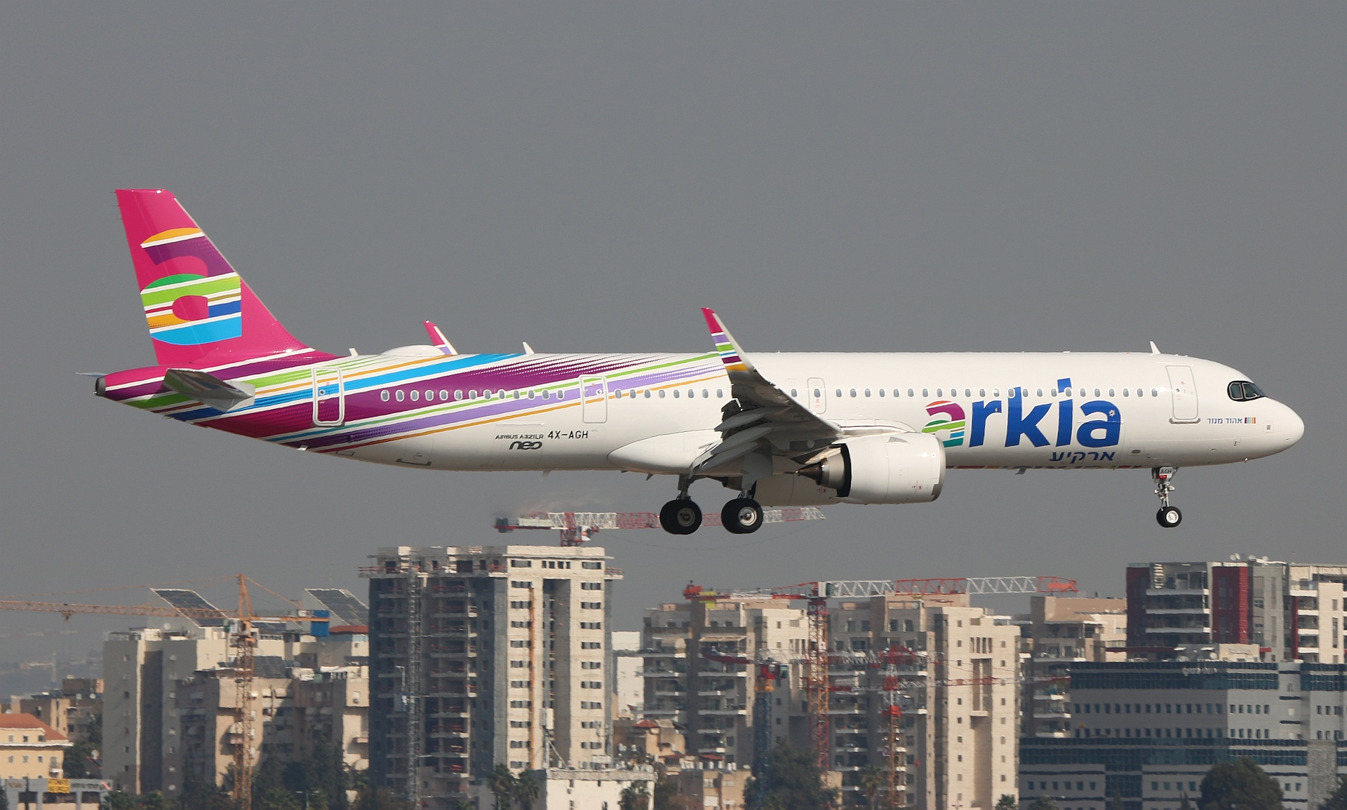 4X-AGH landing Rnw 12 ,Ben Gurion Arport